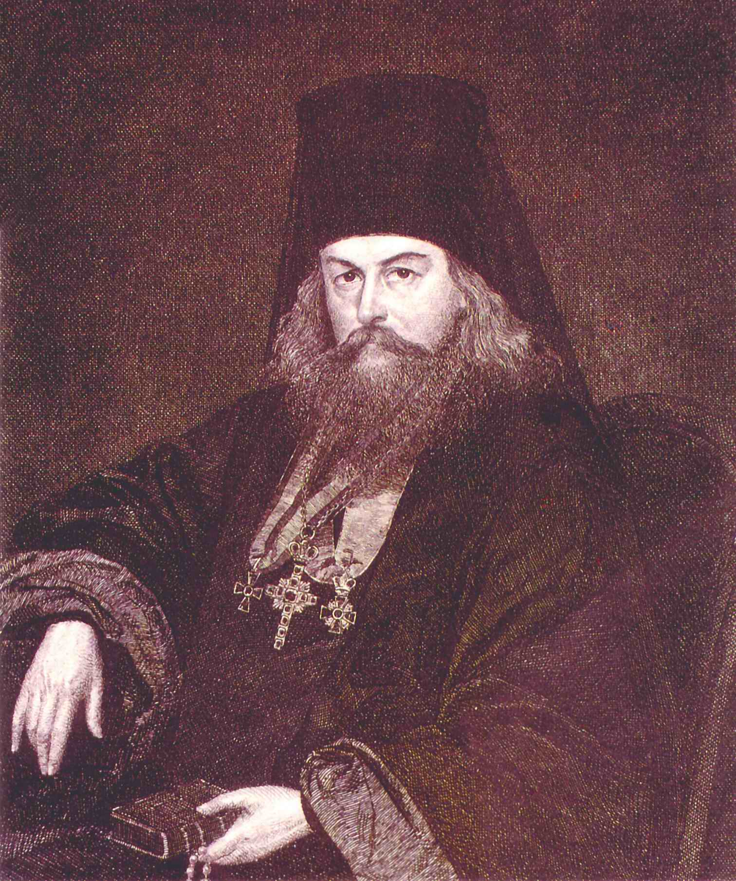 St. Ignatius Brianchaninov